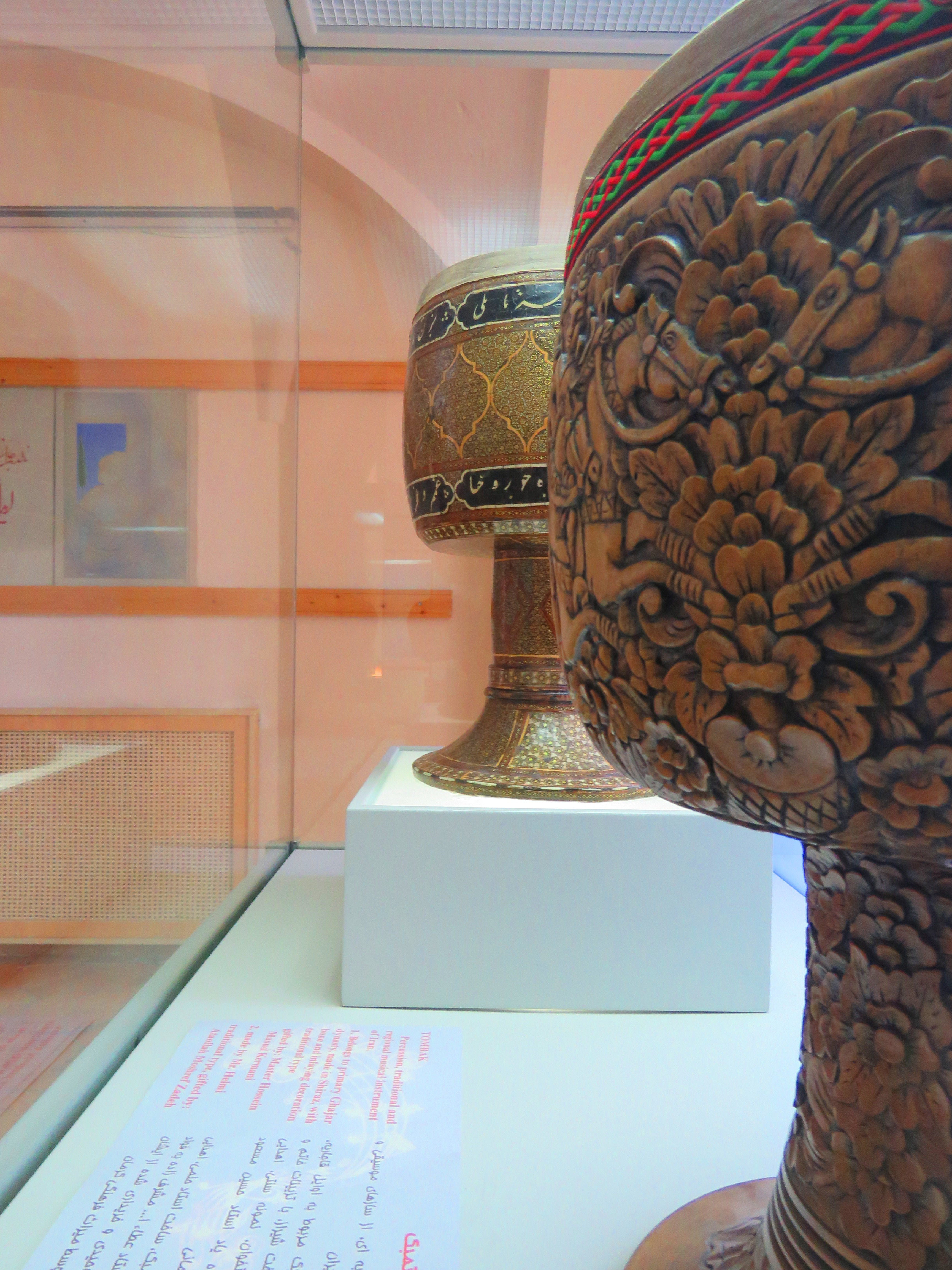 Harandi Garden